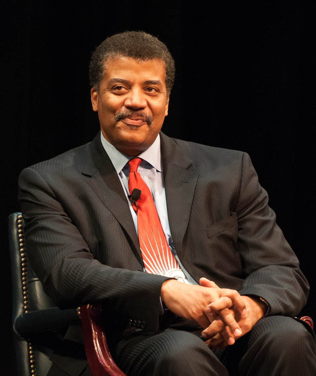 Neil deGrasse Tyson on stage with Richard Dawkins at Howard University in Washington D.C.